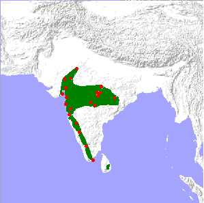 Distribution map Francolinus pictus (Painted Francolin) Made by L. Shyamal